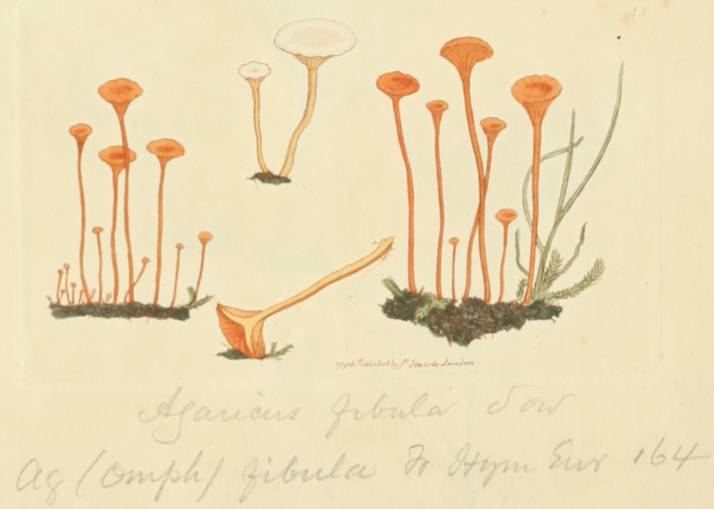 This is a plate from James Sowerby's Coloured Figures of English Fungi or Mushrooms.